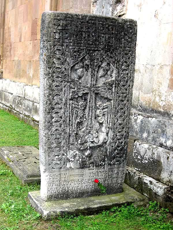 A large 13th century Armenian-inscribed khachkar,Gandzasar Monastery. Inscription in old-Armenian: "I Hasan, son of Vakhtang..."" 22